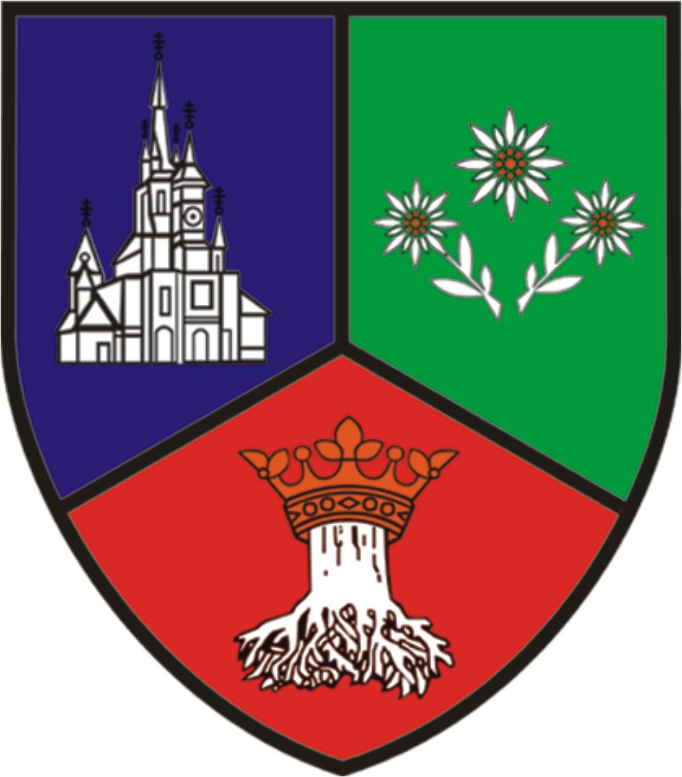 Coat of arms of Brașov County, Romania.